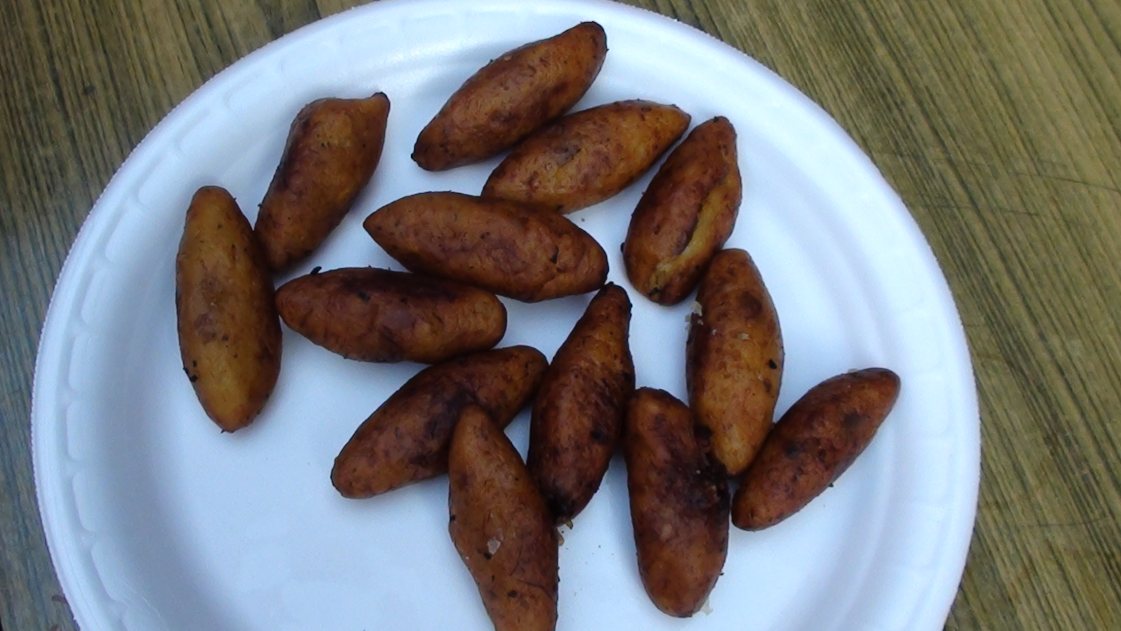 This is a sweet snack from malabar kerala india jadan